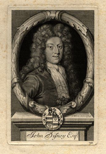 John Disney (1677-1730)